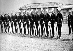 North West Mounted Police post, 1875 , Calgary, Canada.